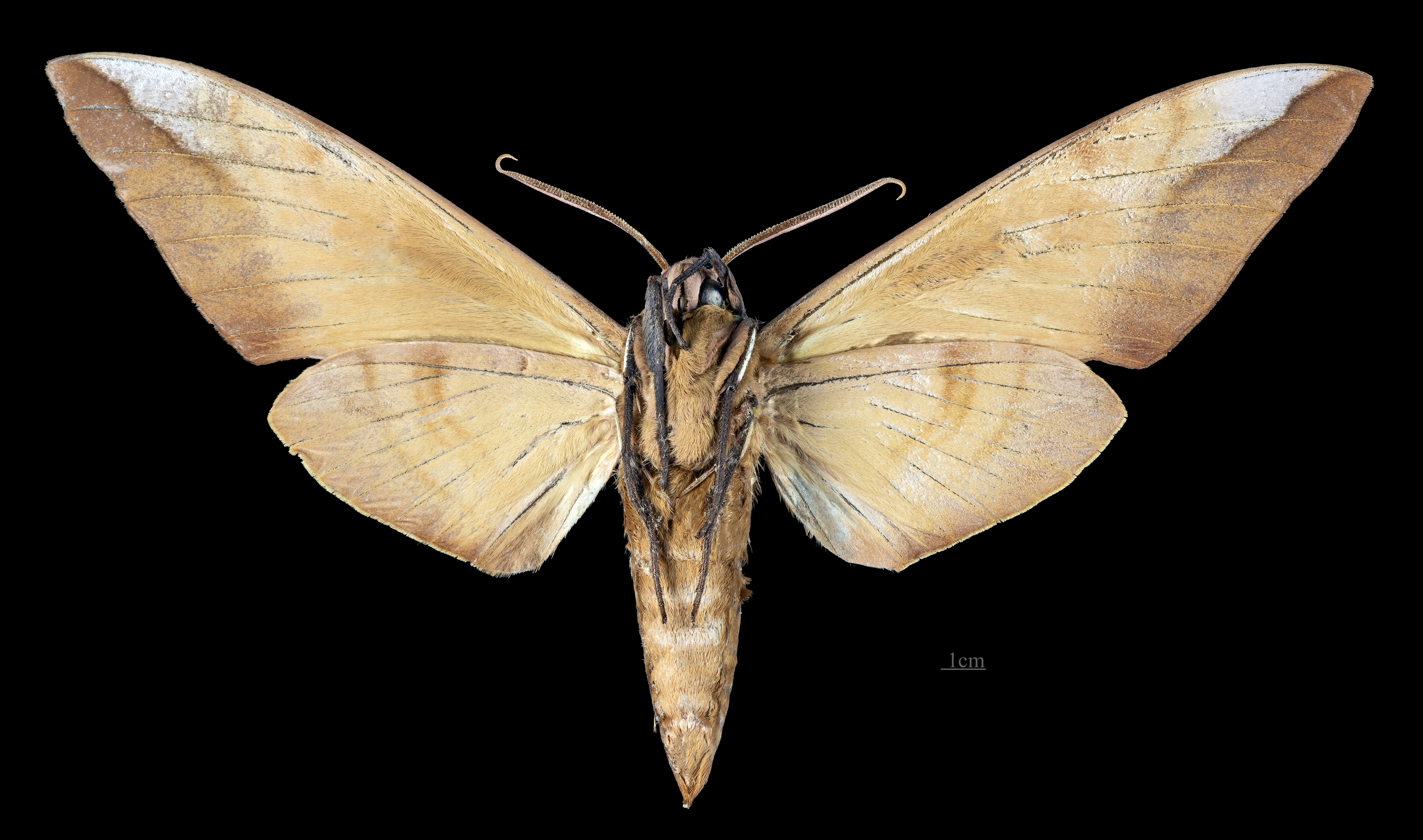 Clanis titan - △ Ventral side Collection of the Mathematician Laurent Schwartz